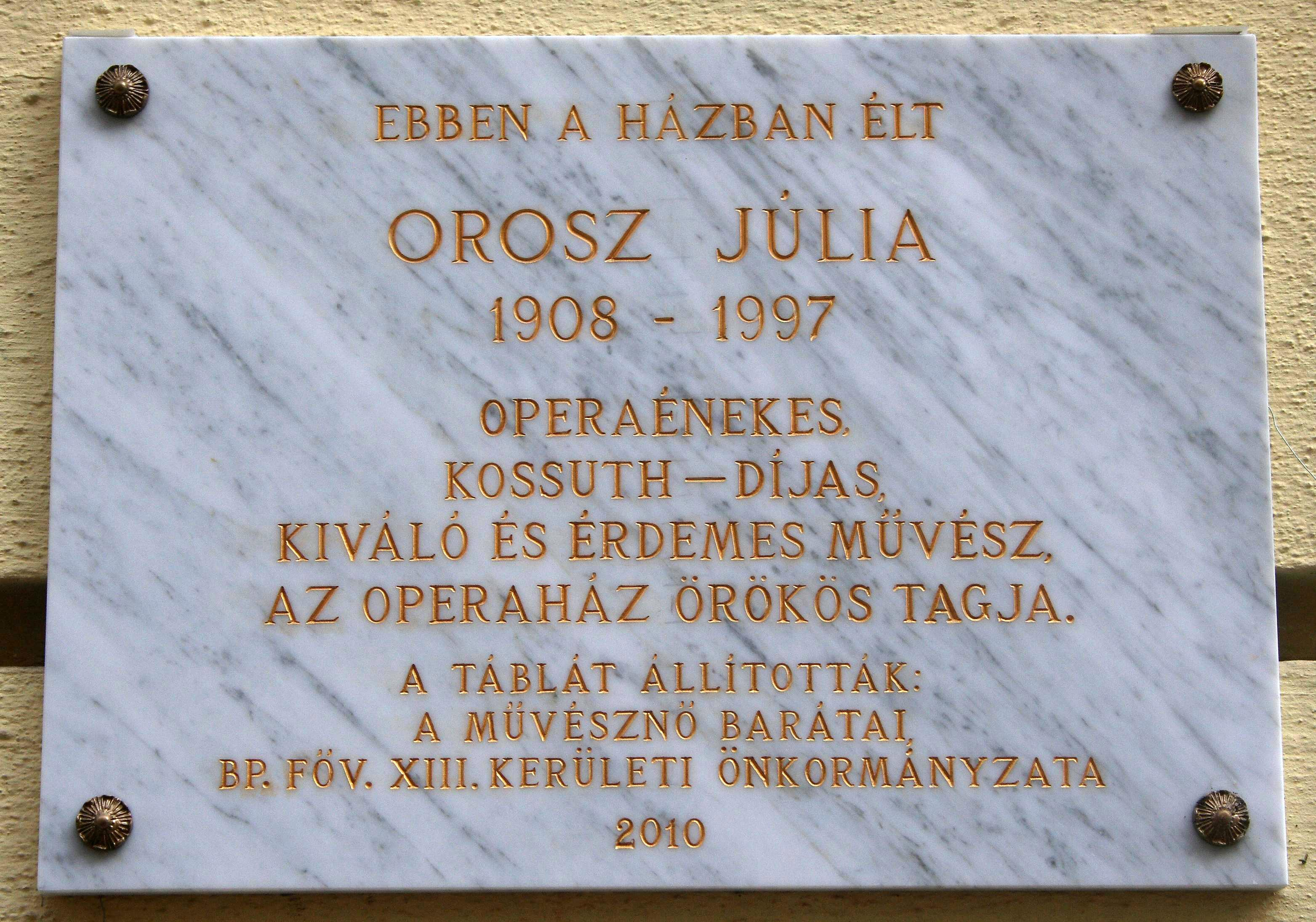 Plaque of Hungarian opera singer Júlia Orosz (1908–1997)